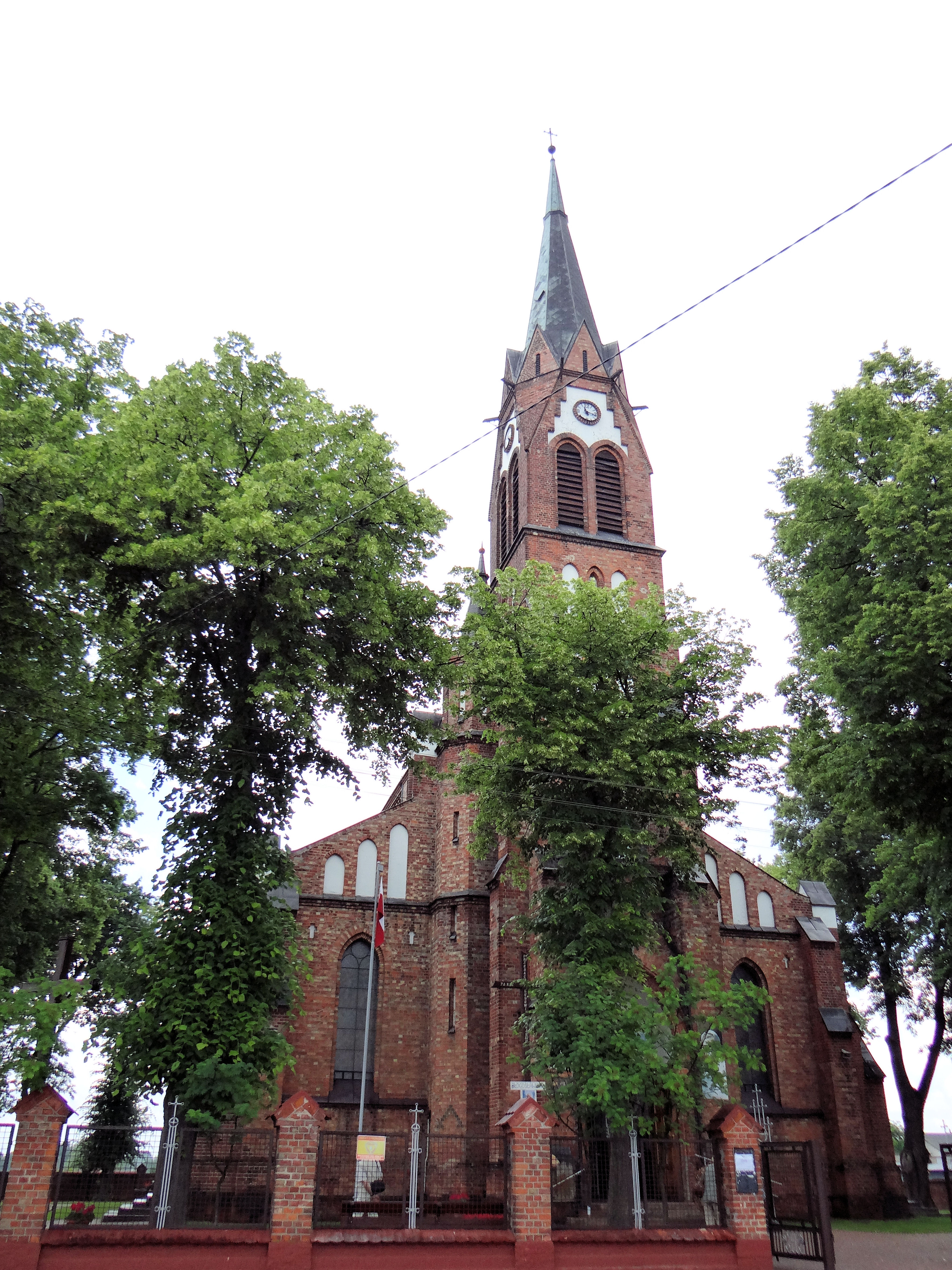 Church of the Assumption in Kałuszyn